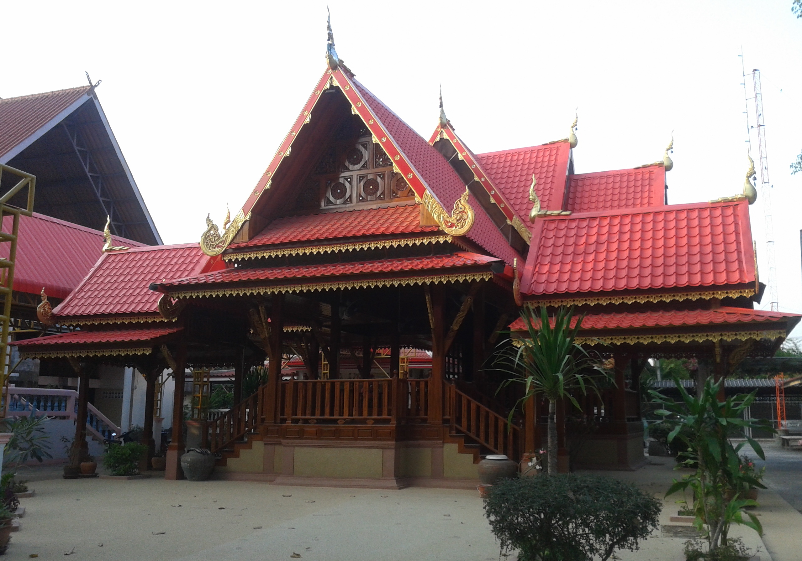 Ban Ngew-Ngam